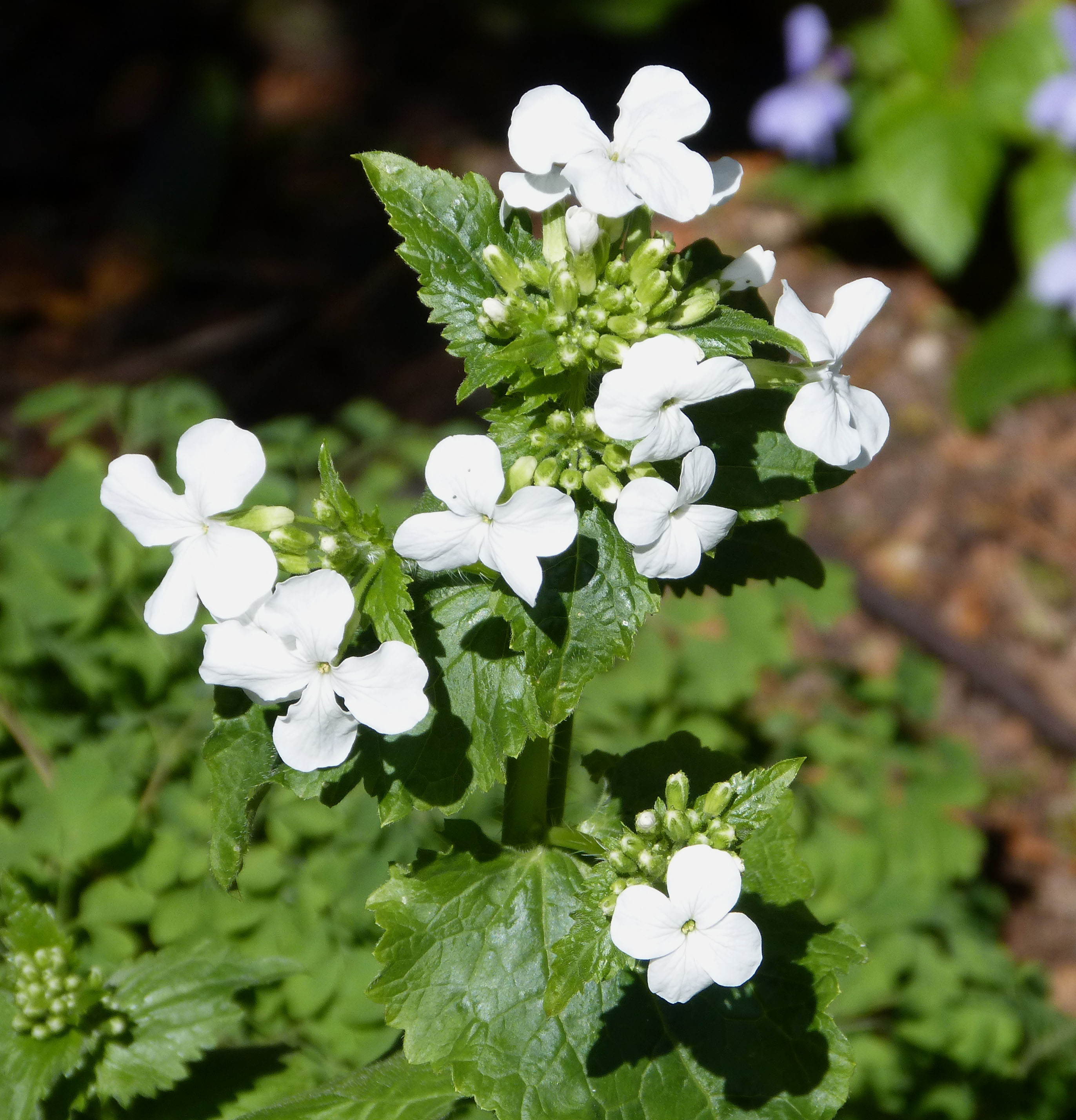 White honesty. Lunaria annua alba